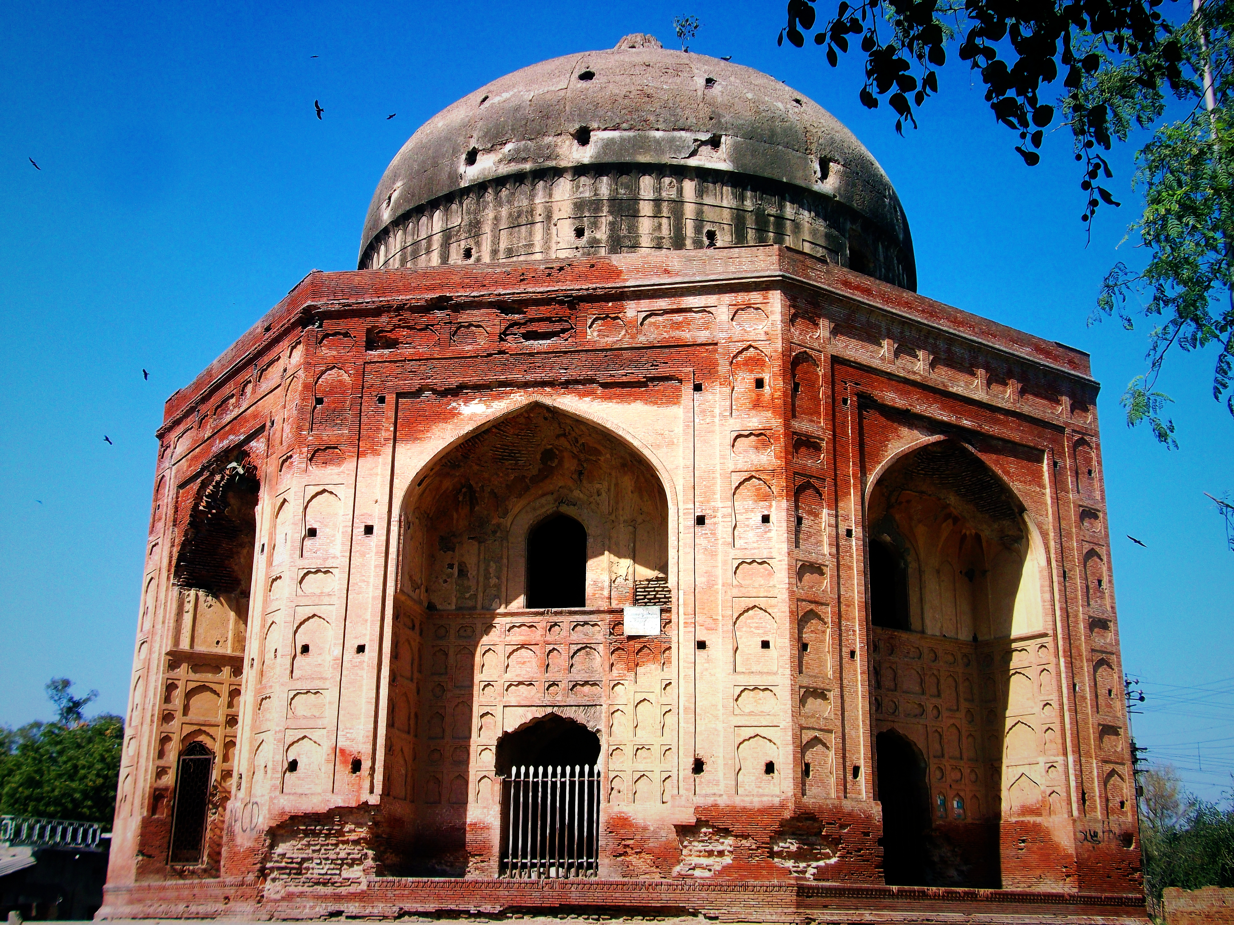 Tomb of Khan-e-Jahan Bahadur Kokaltash, Lahore.